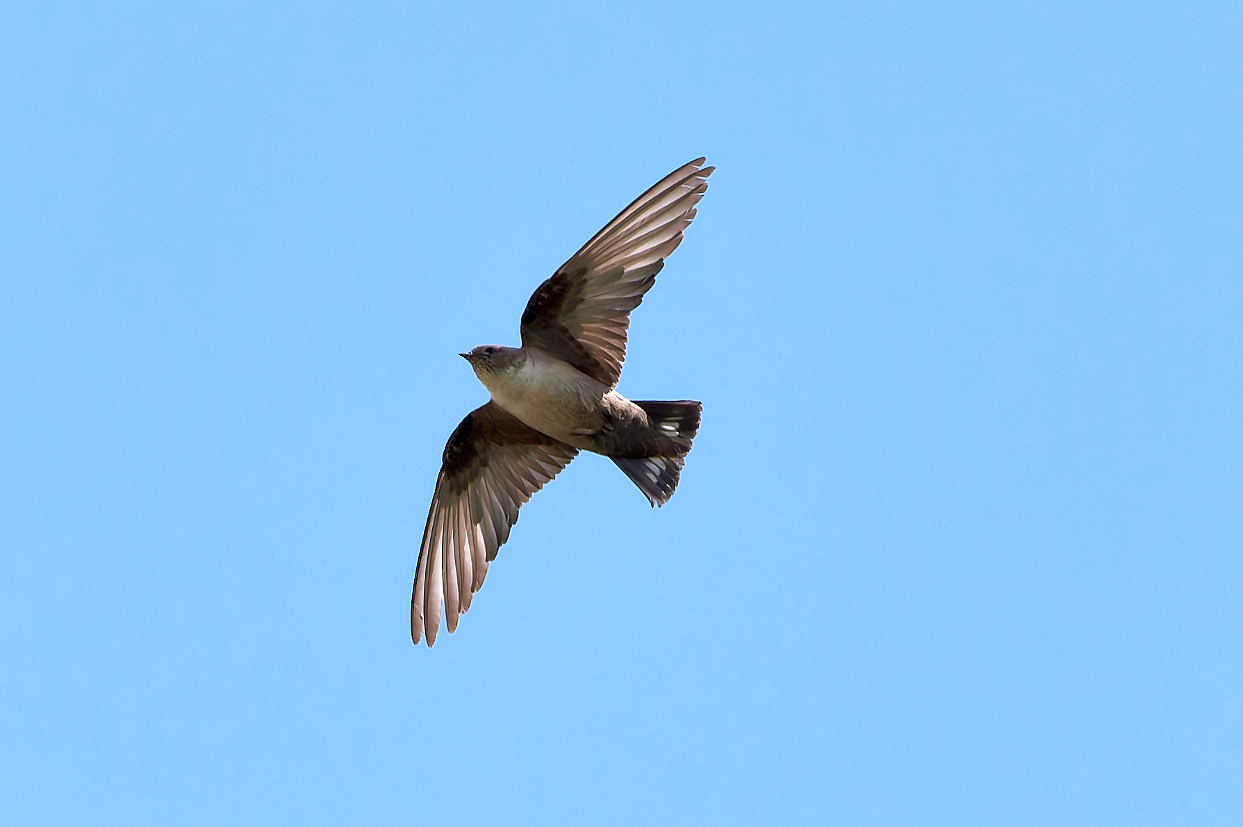 Eurasian Crag Martin (Ptyonoprogne rupestris) in flight, mountain Nebelhorn, Germany